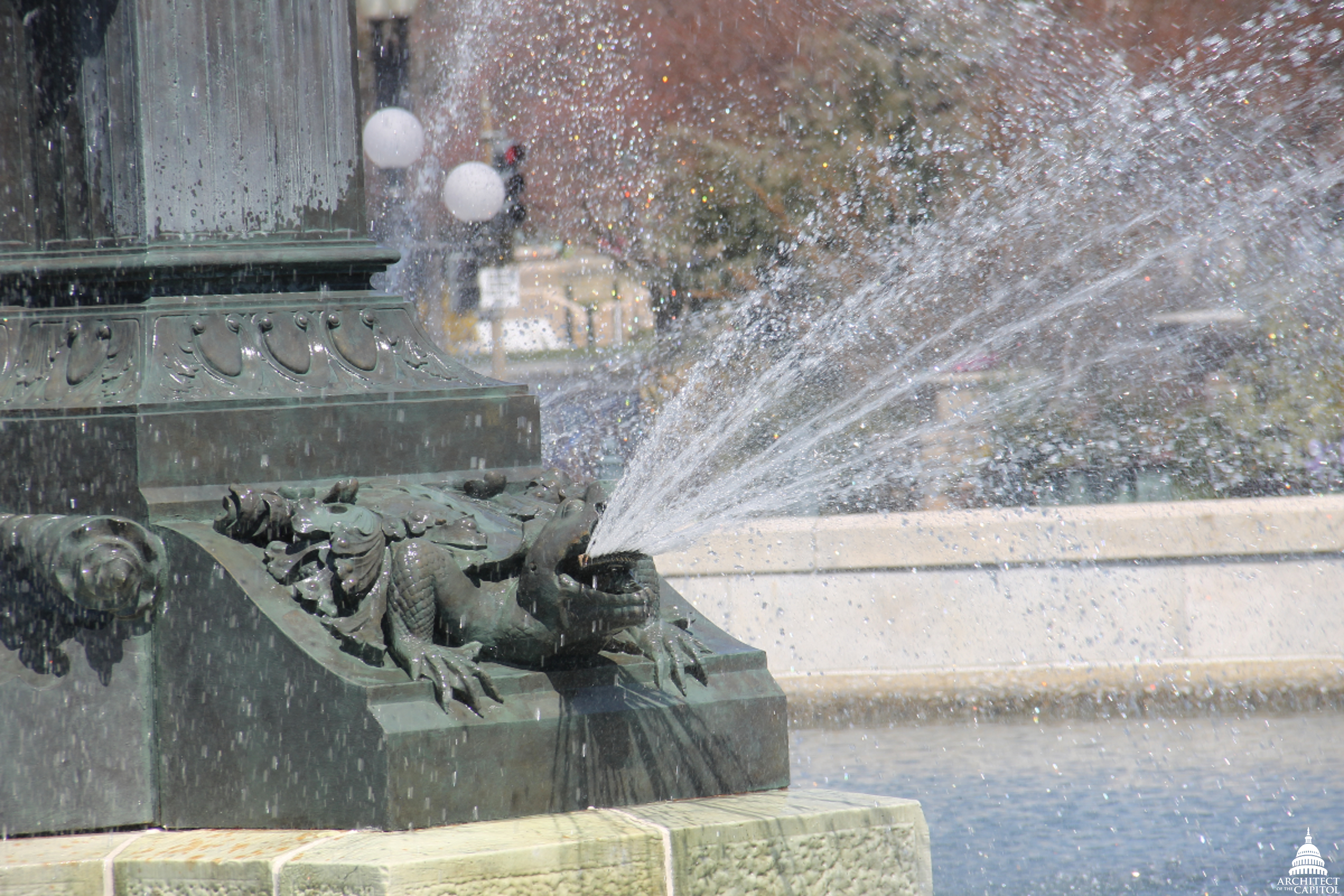 Bartholdi Park serves as a home landscape demonstration garden and showcases innovative plant combinations in a variety of styles and design themes. The U.S. Botanic Garden Administration Building and the Bartholdi Fountain is located in the park.